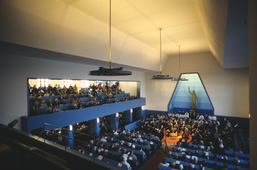 Bugenhagenkirche Innenraum This is the photograph of an architectural monument. It is part of the list of cultural monuments of Hamburg, no. 993